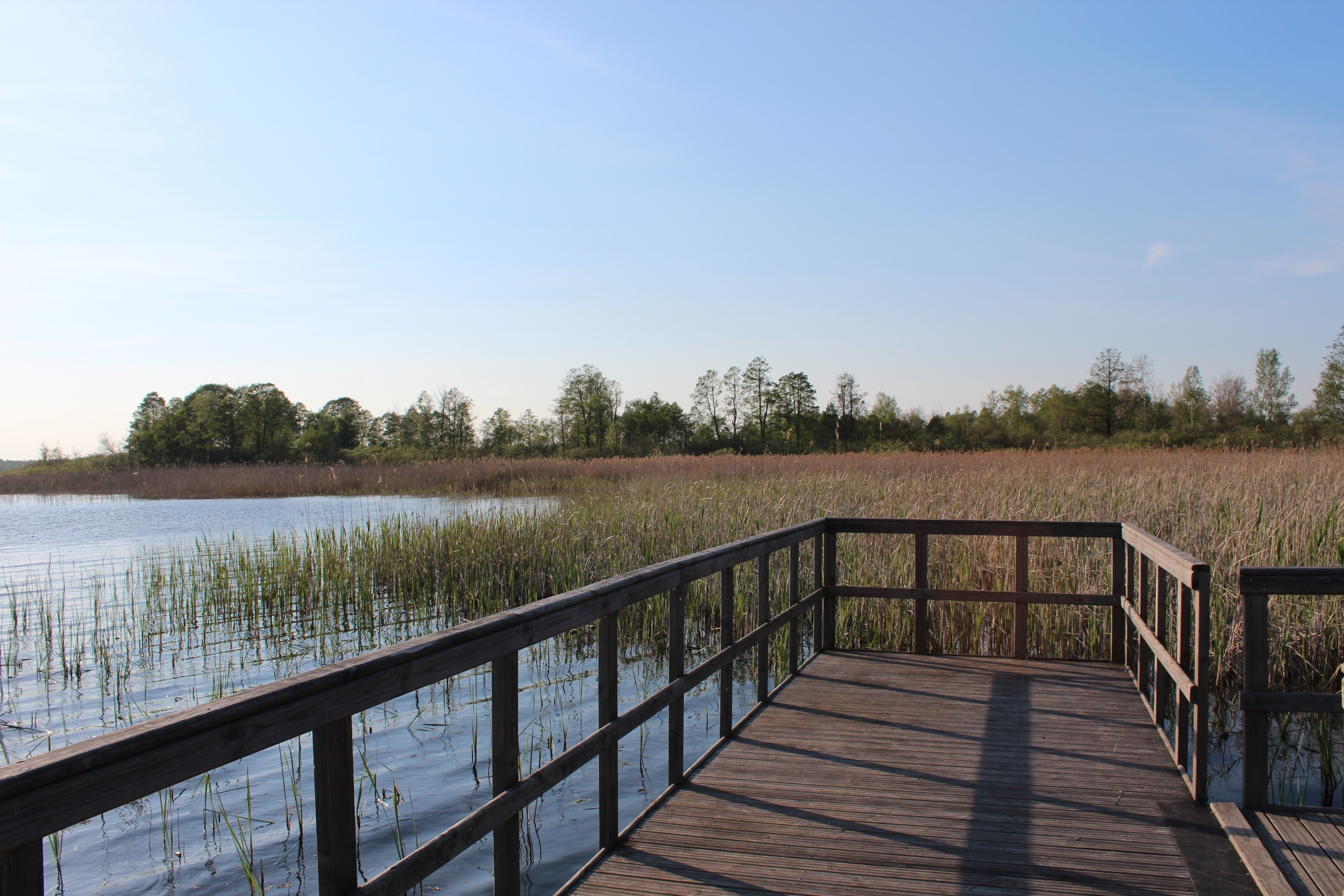 Polesie National Park - "Spławy" Trail